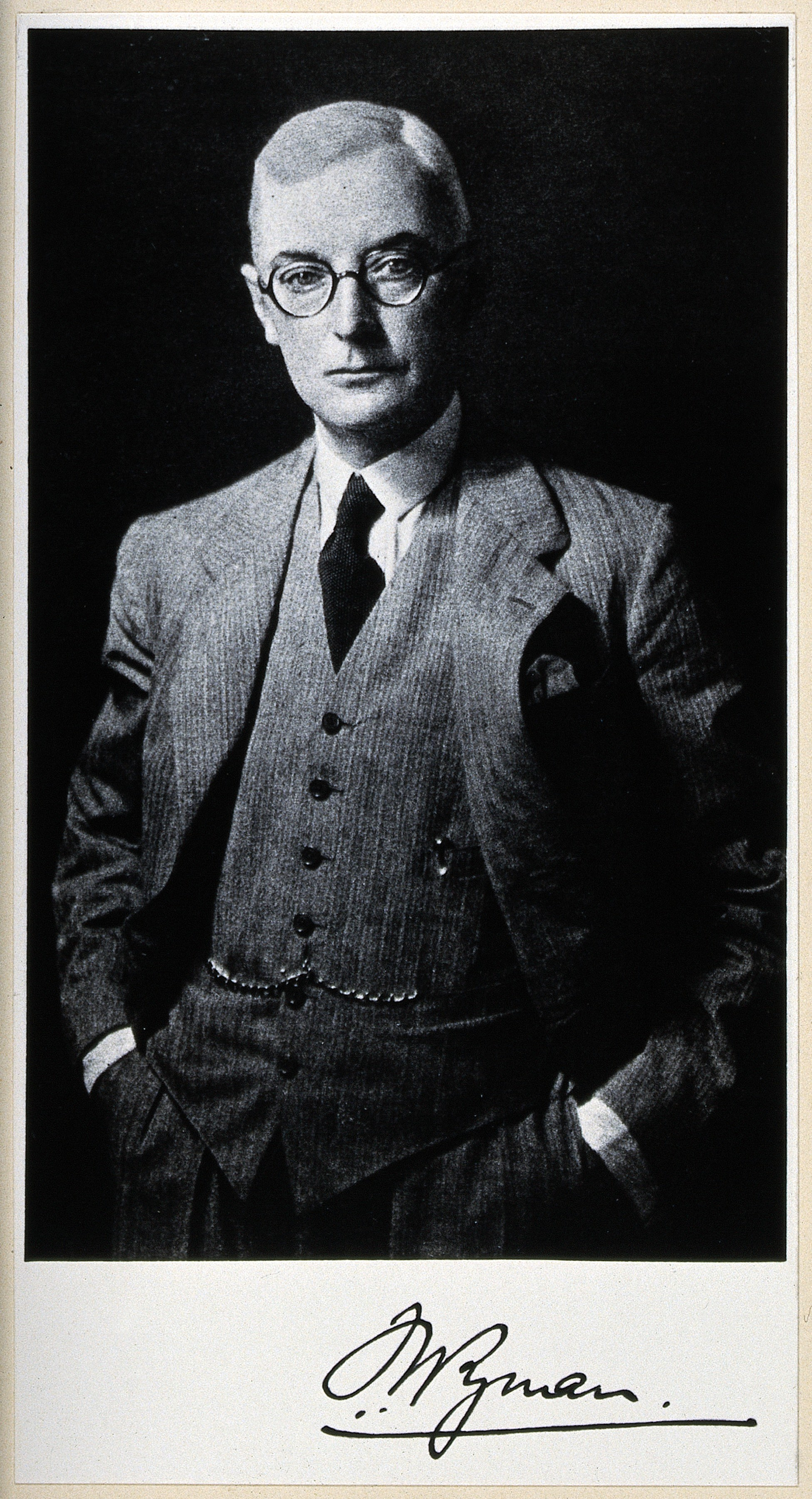 Jeffries Wyman. Photograph. Iconographic Collections Keywords: portrait photographs